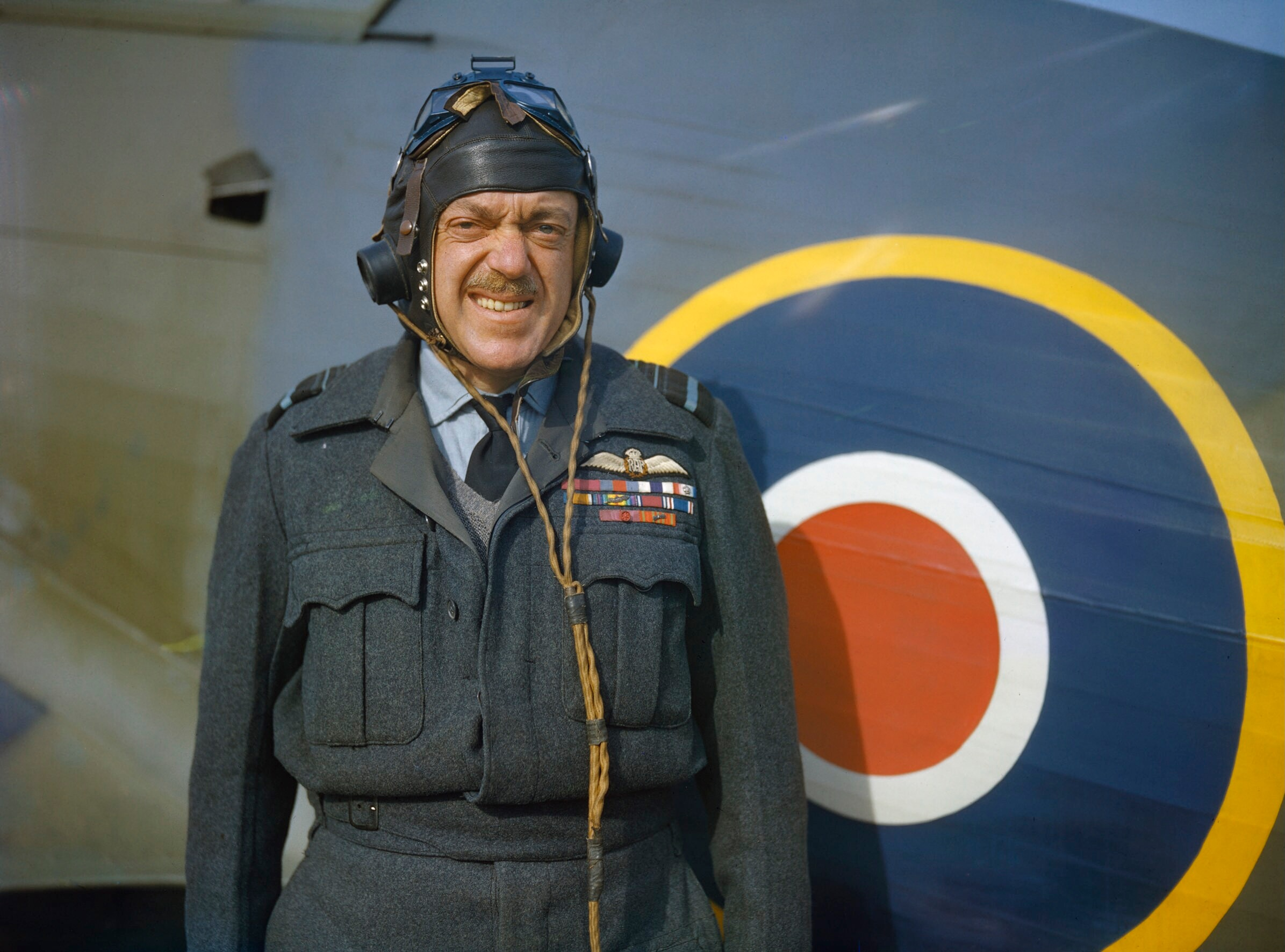 Air Marshal Sir Arthur Barratt, KCB, CMG, MC in battledress and flying gear beside a Hawker Hurricane.